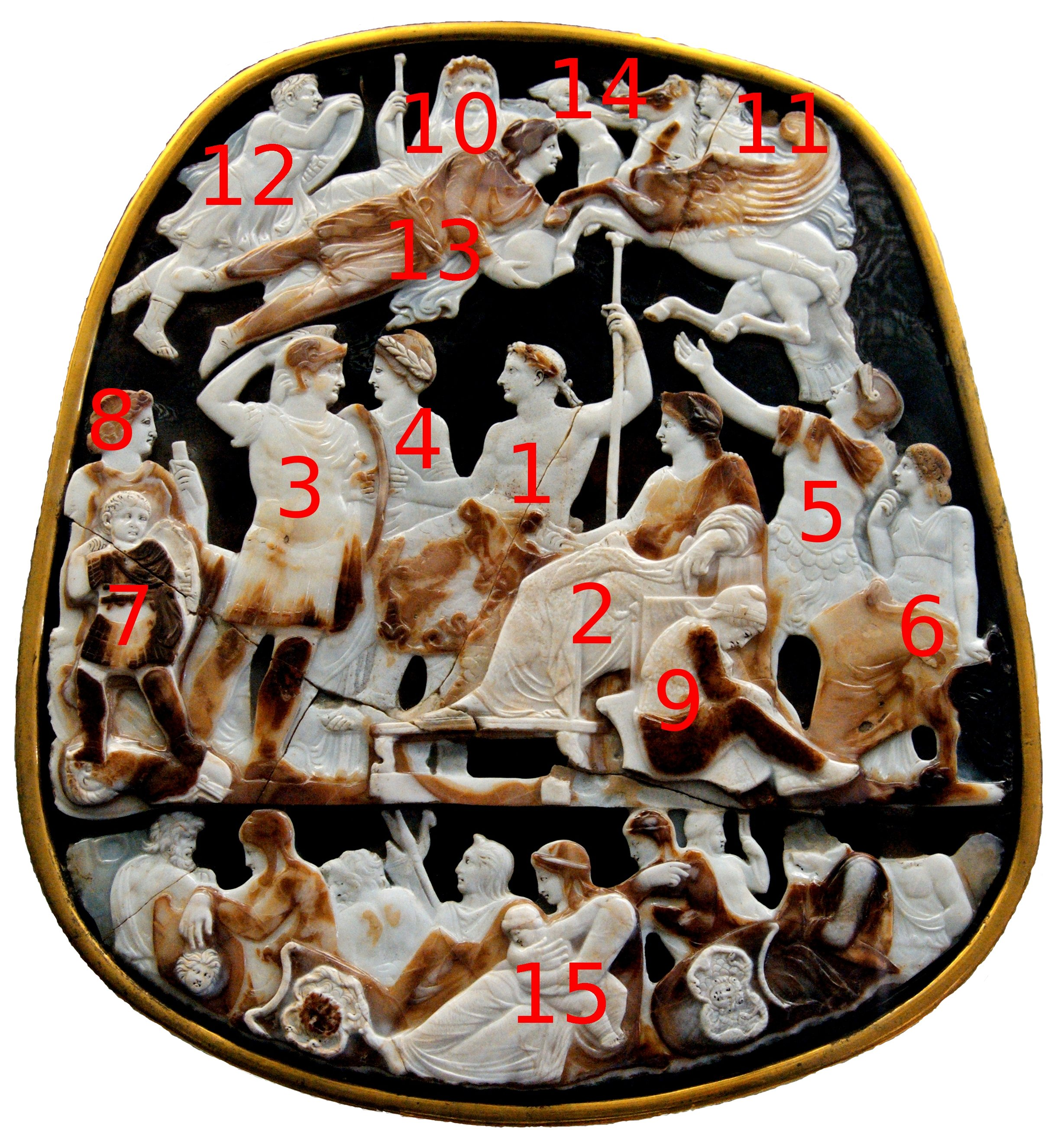 So-called Great Cameo of France; identification of the picture's persons with their numbers.